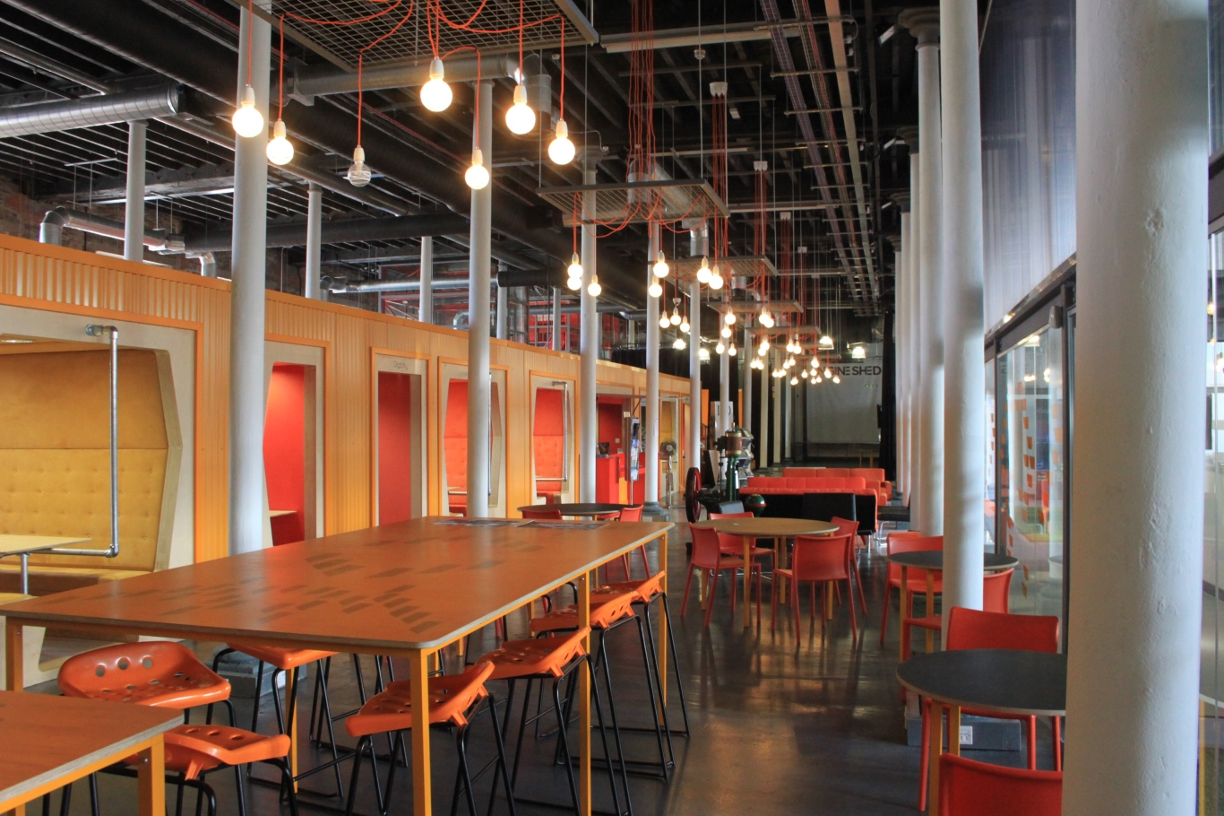 Isambard Kingdom Brunel's original station has been turned into a business centre for start-up and technology companies. The old Engine Shed area which he provided beyond the Bristol end of the passenger platforms, has been converted into a lounge and socialising area but his original structure and pillars have been retained.